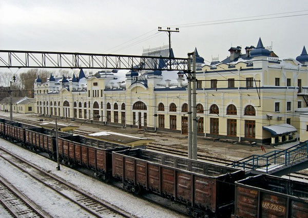 Tomsk-I, rail, station, train